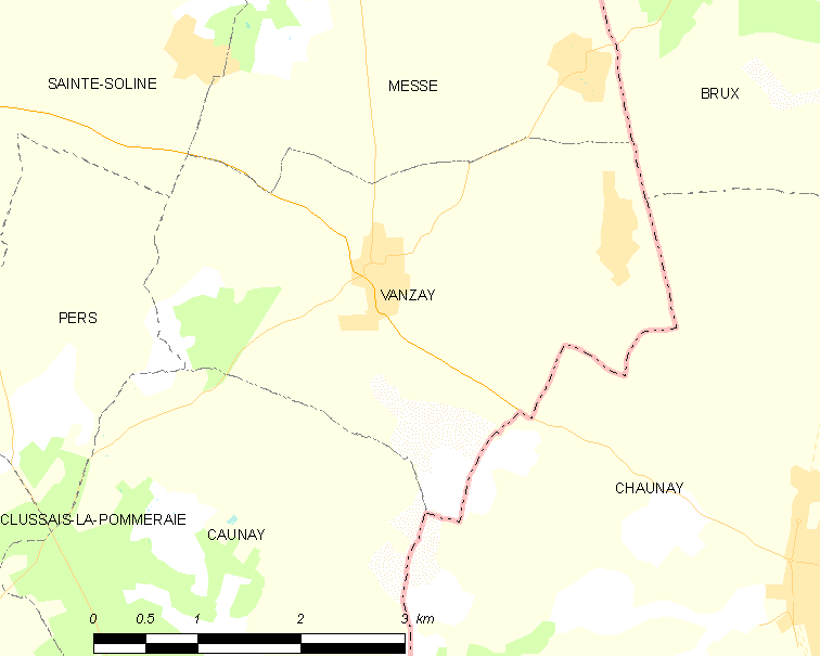 Map of French municipality Vanzay